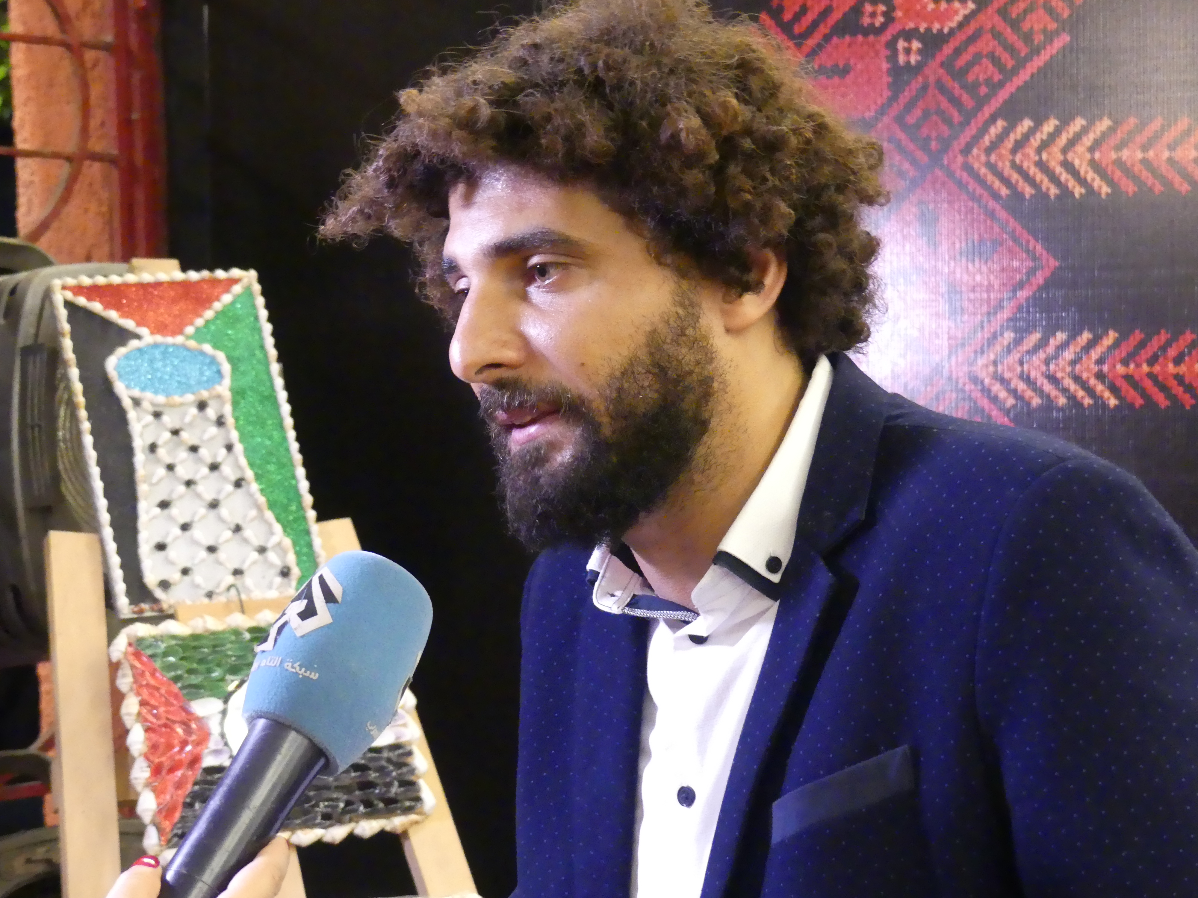 Actor and theatre director Kassem Istanbouli interviewed by Al Ghad TV during the Palestinian Culture Festival 2019 in the Rivoli Cinema of Tyre/Sour, Southern Lebanon